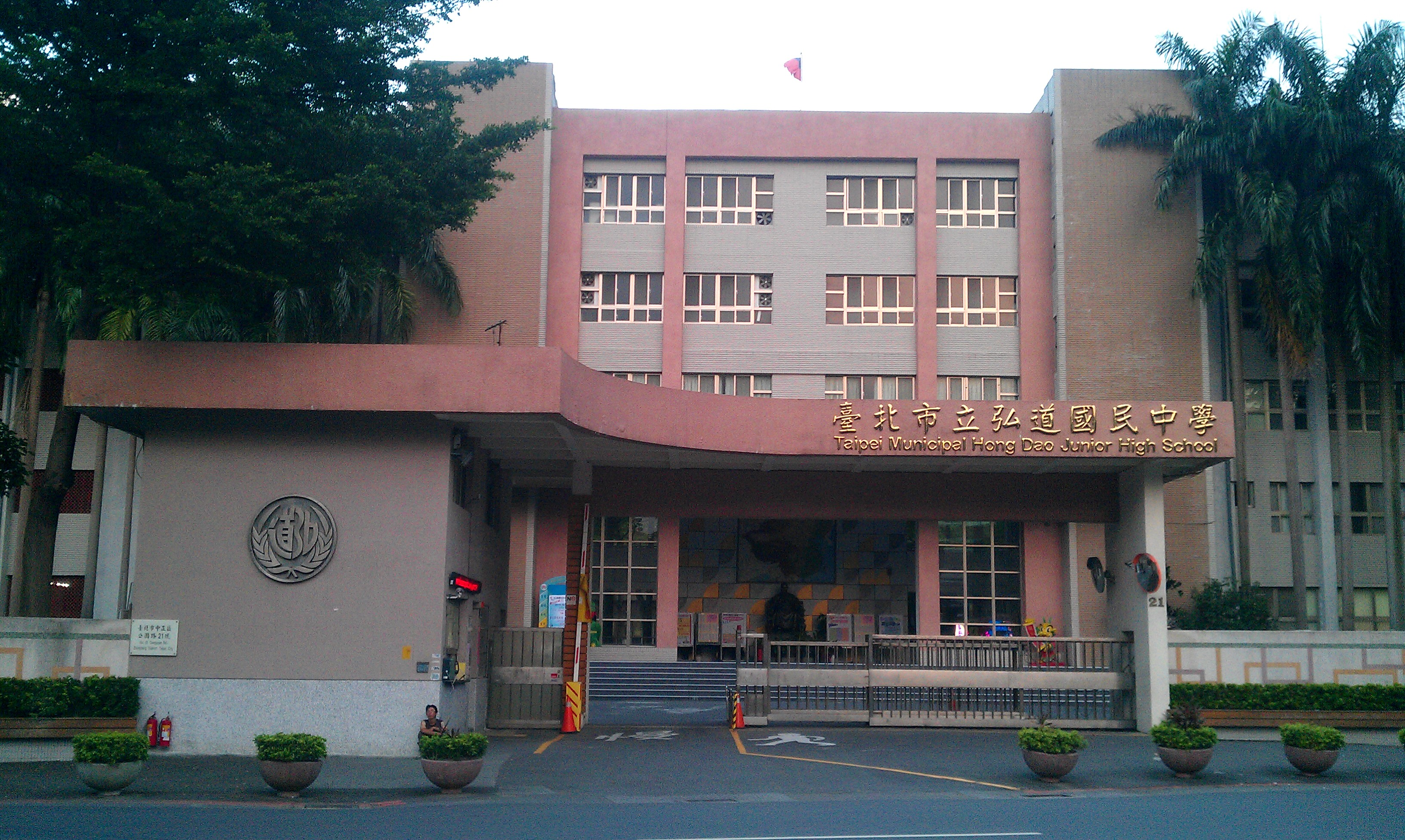 The main gate of Taipei Municipal Hongdao Junior High School.